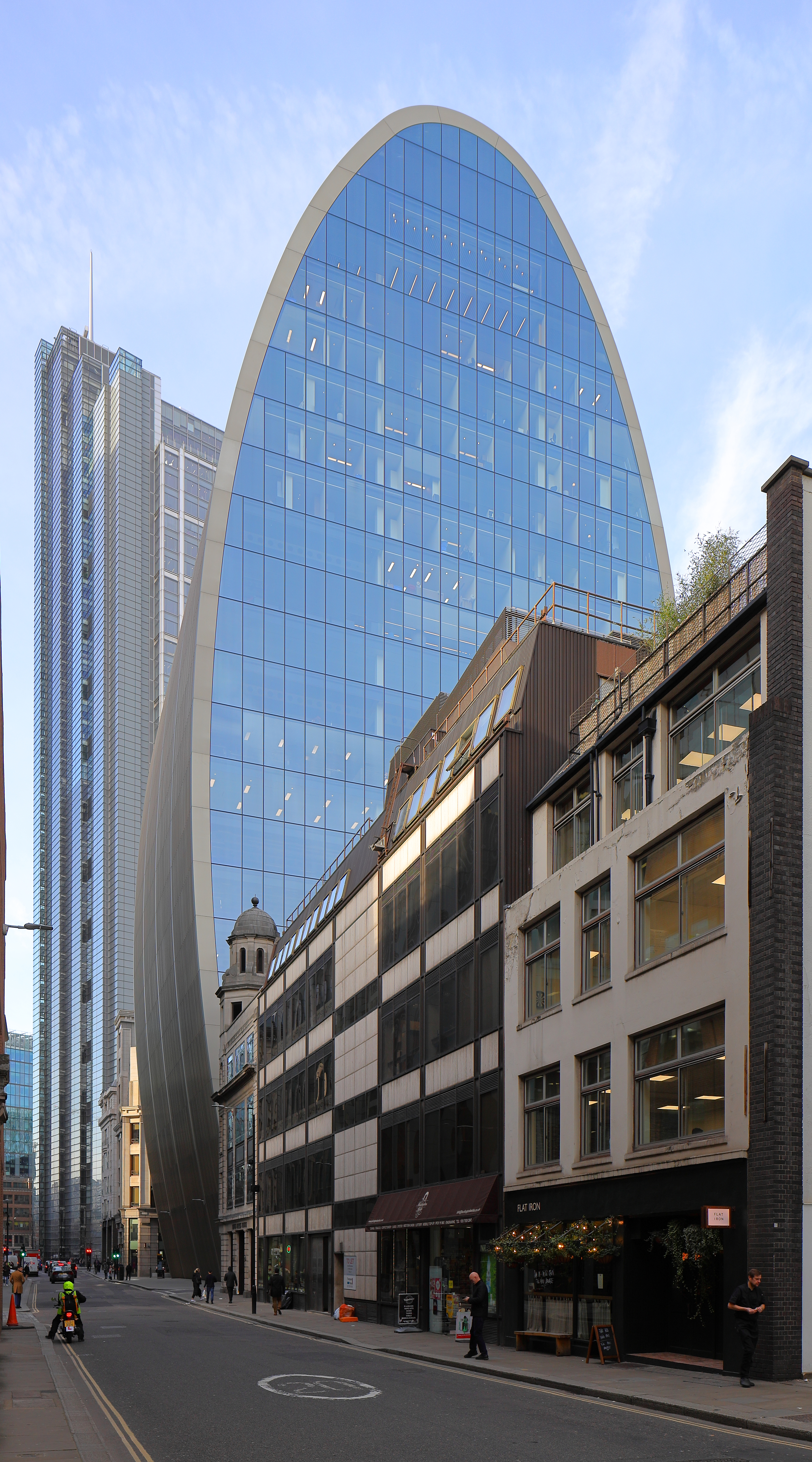 The new office building 70 St Mary Axe, looking north-north-west from Bevis Marks at its junction with Heneage Lane.